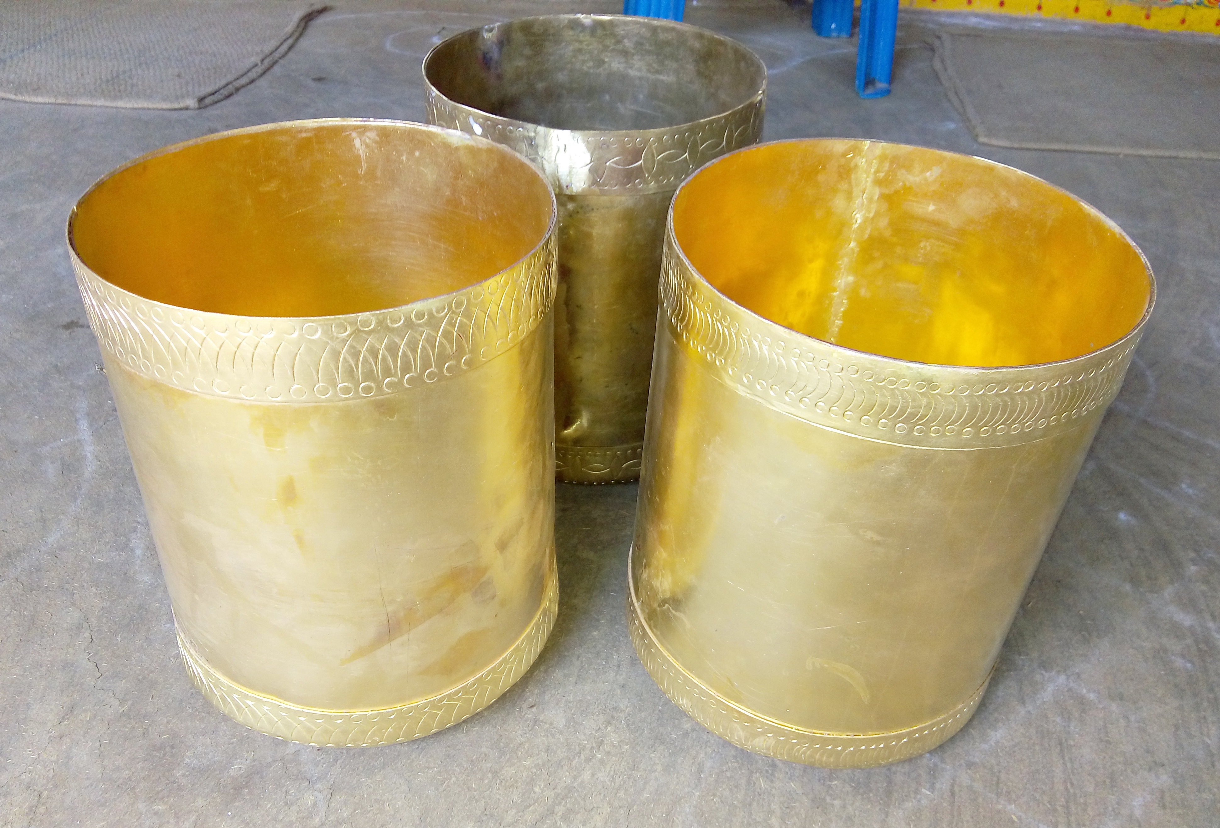 Kuncham-used for measurement in telugu villages